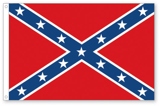 Historically, this was the CSA Navy jack; since the battle flag as used as land was usually square or close to square.